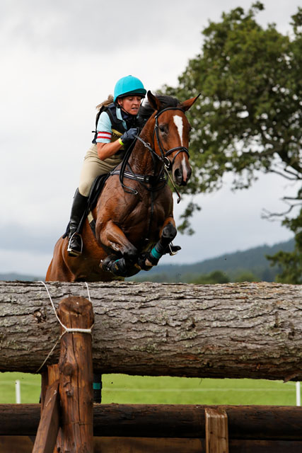 Blair Castle cross country 2006 Taken on the second day of the annual Blair Castle International three day Horse Trials and County Fair.